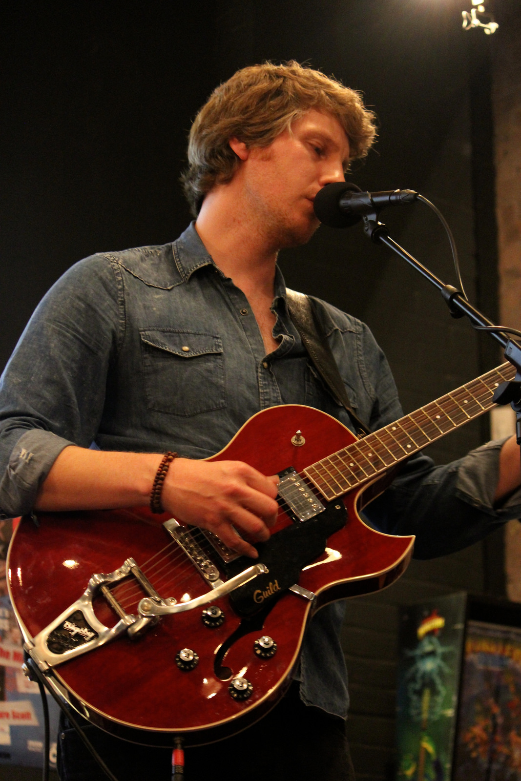 Musician Scott Matthews performing at Dockyard Bar in Salford on 25th September 2014. Image © Emma Farrer 2014 and used with her permission.